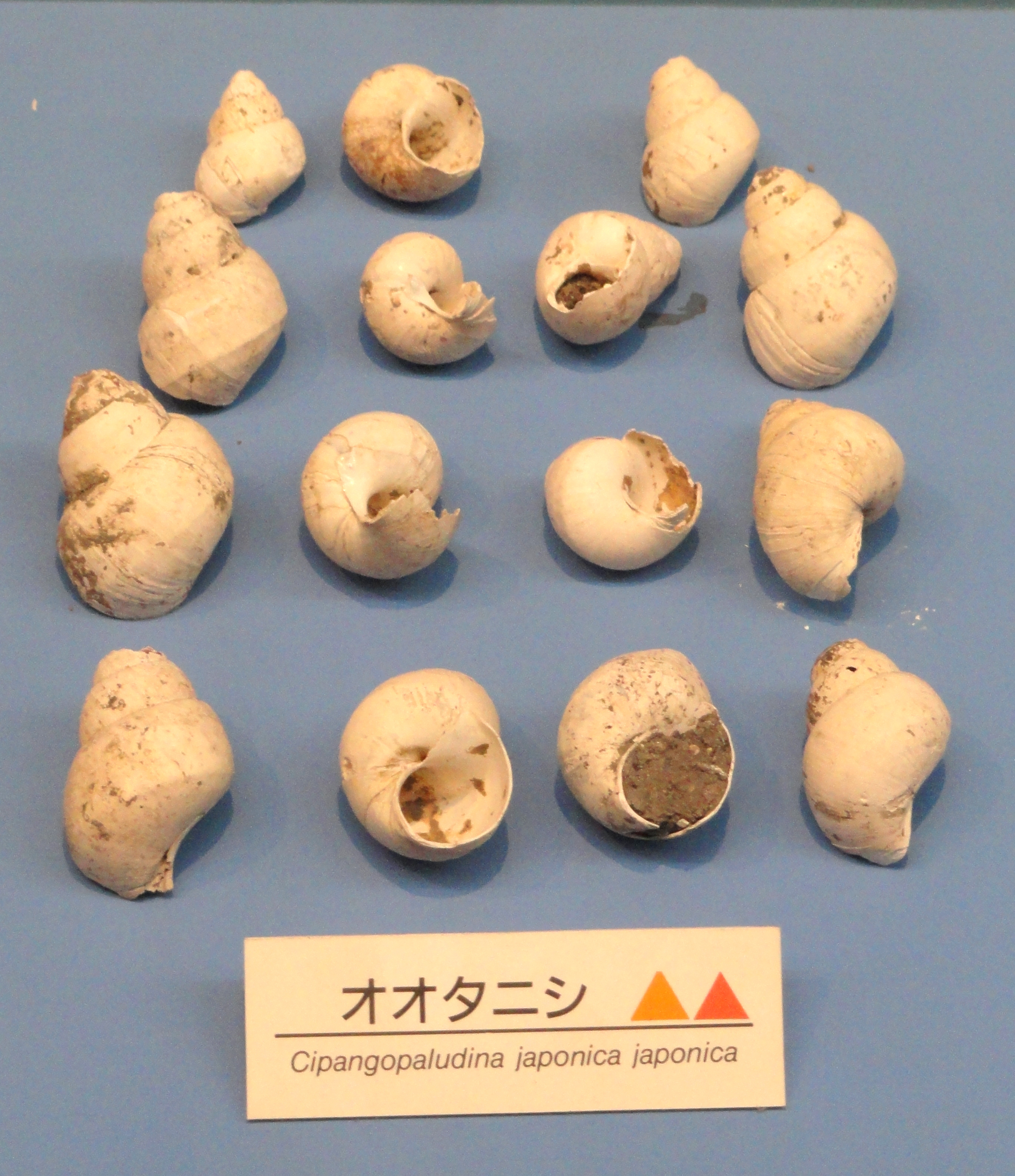 Exhibit in the Osaka Museum of Natural History, Osaka, Japan.